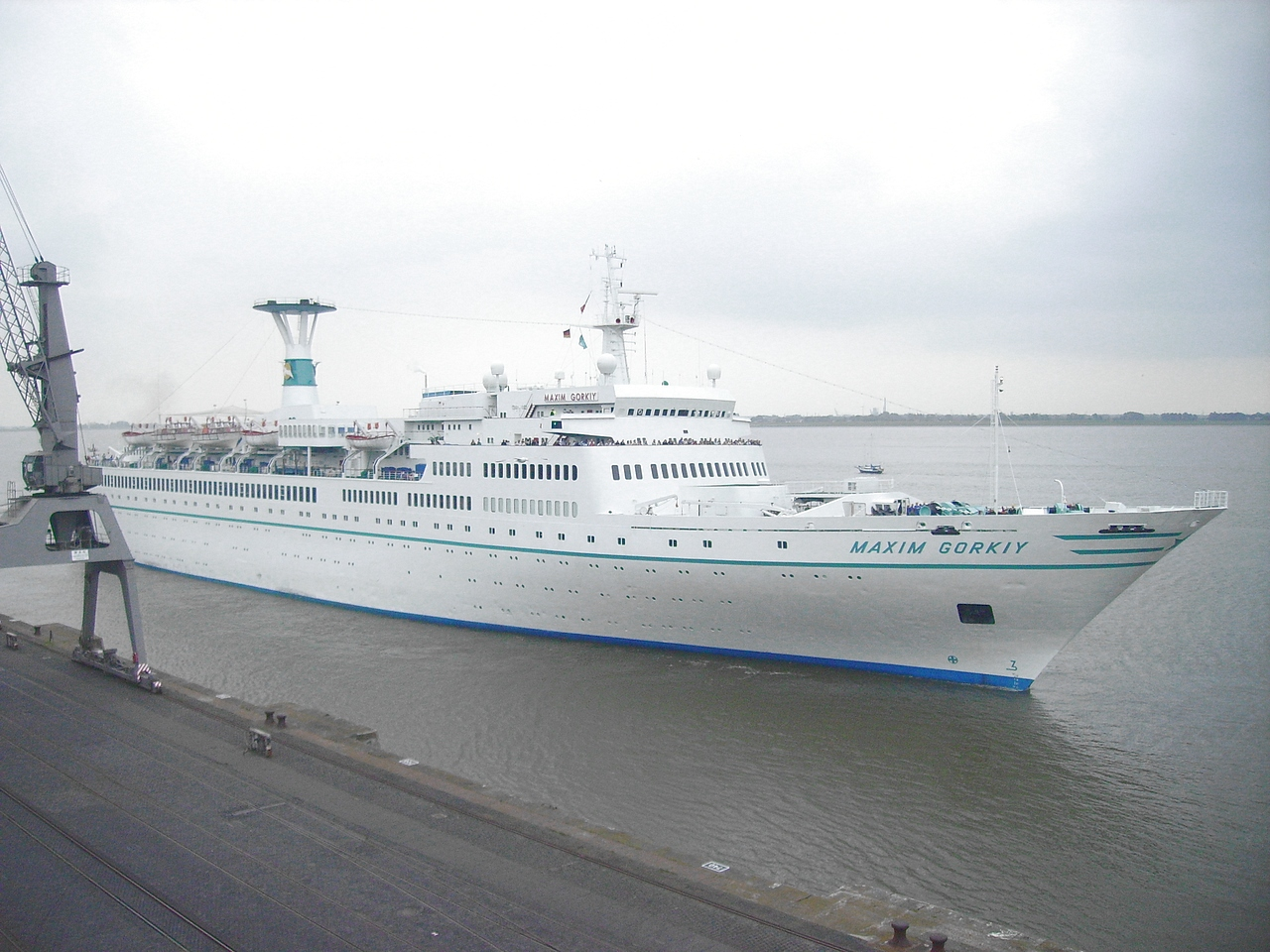 The cruise ship "Maxim Gorkiy" leaving the Columbus Cruise Center in the port of Bremerhaven, Germany